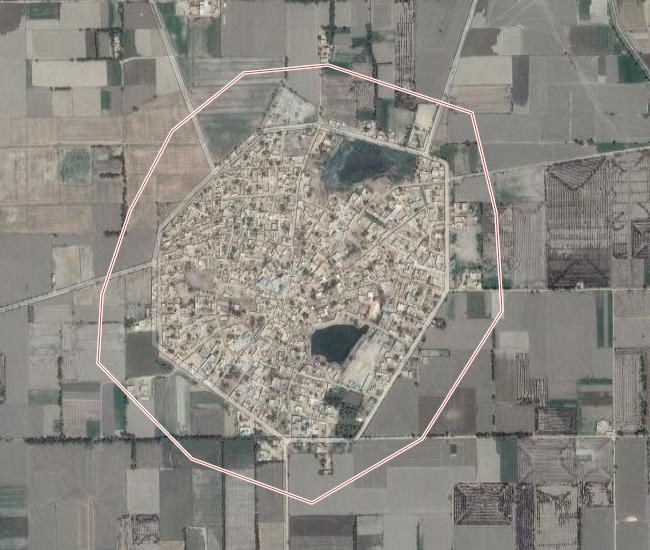 Village Bhangalan, Teh Abohar, Dist Fazilka (Punjab)15216